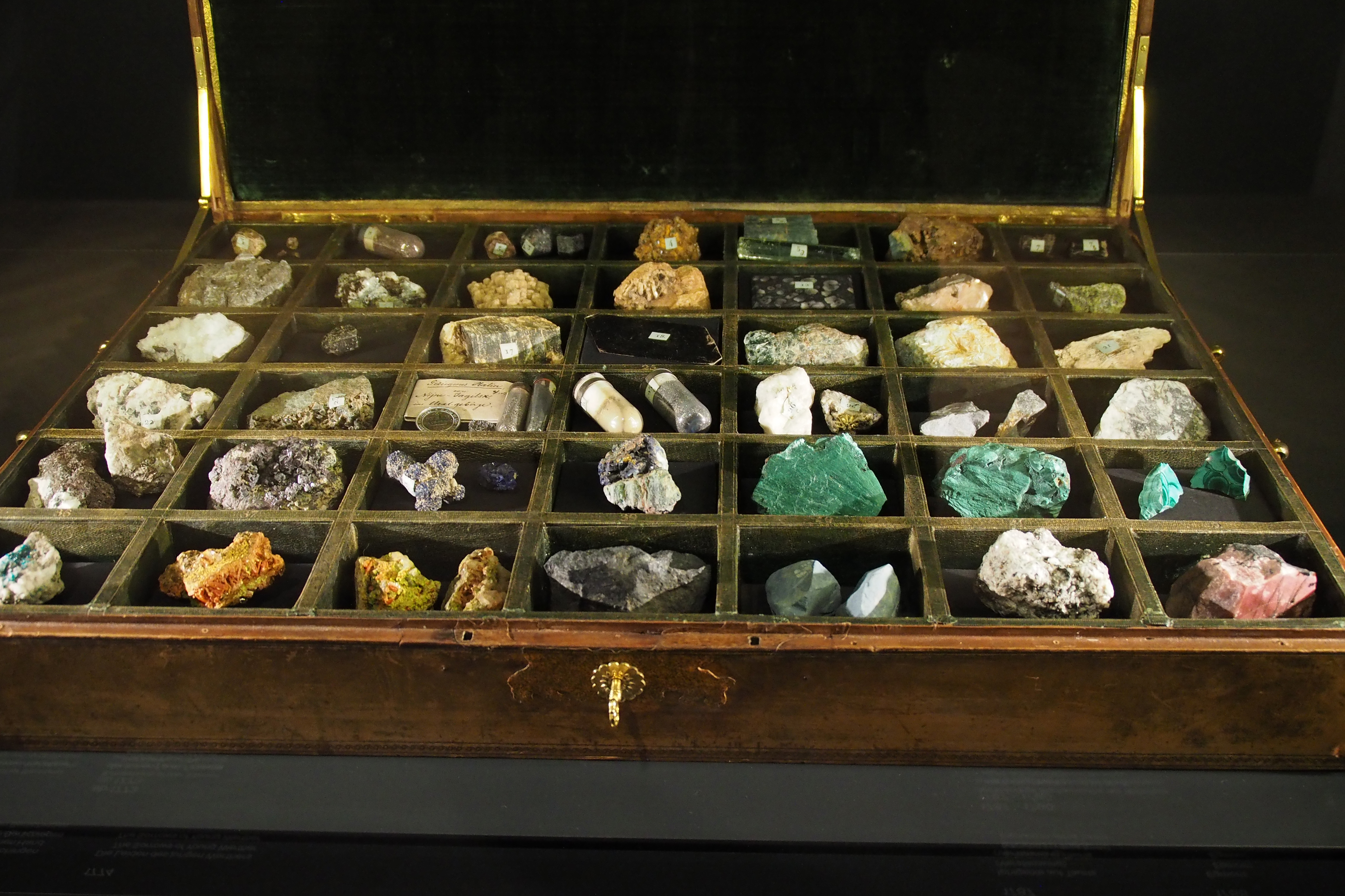 Leather case with a collection of Siberian minerals